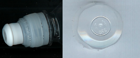 The plastic cap on left and who knows what is on the right side????